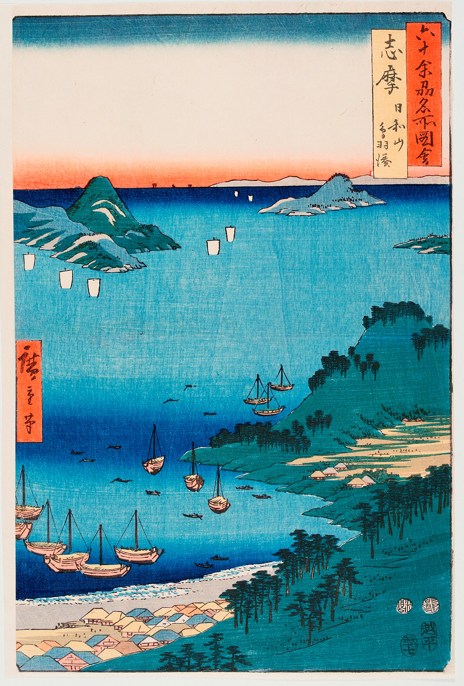 An ukiyo-e of Hiyoriyama and Tobaminato in Shima Province.